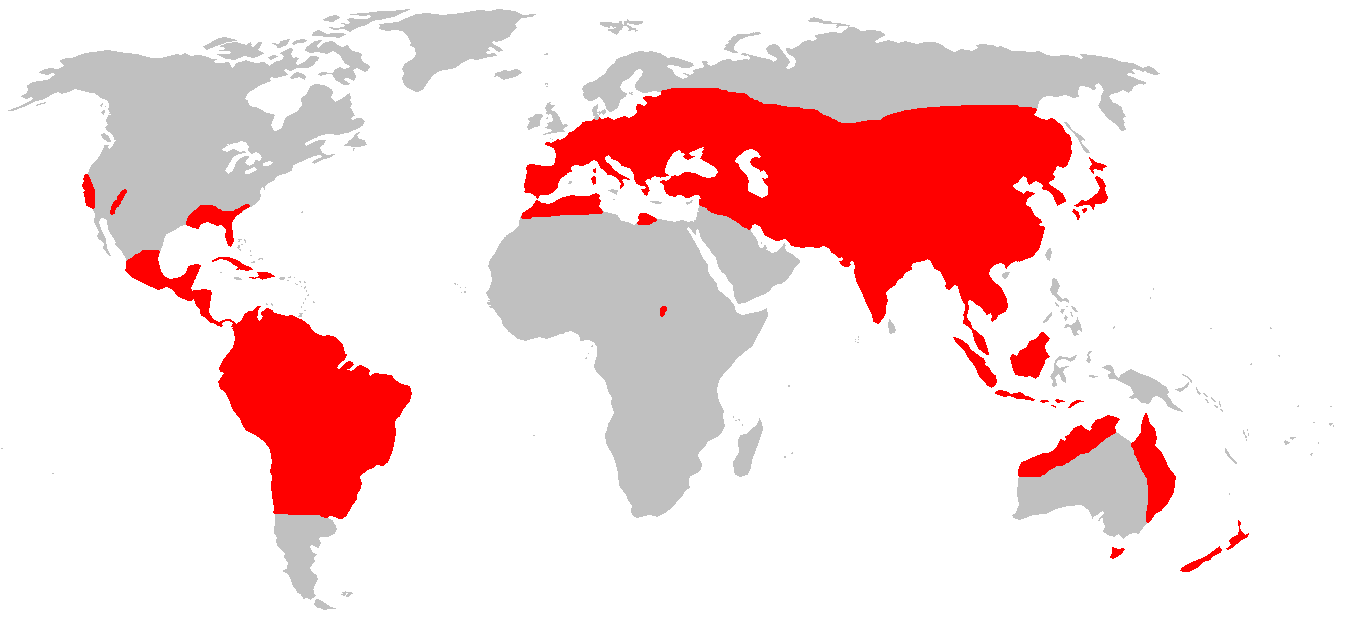 distribution of the wild boar